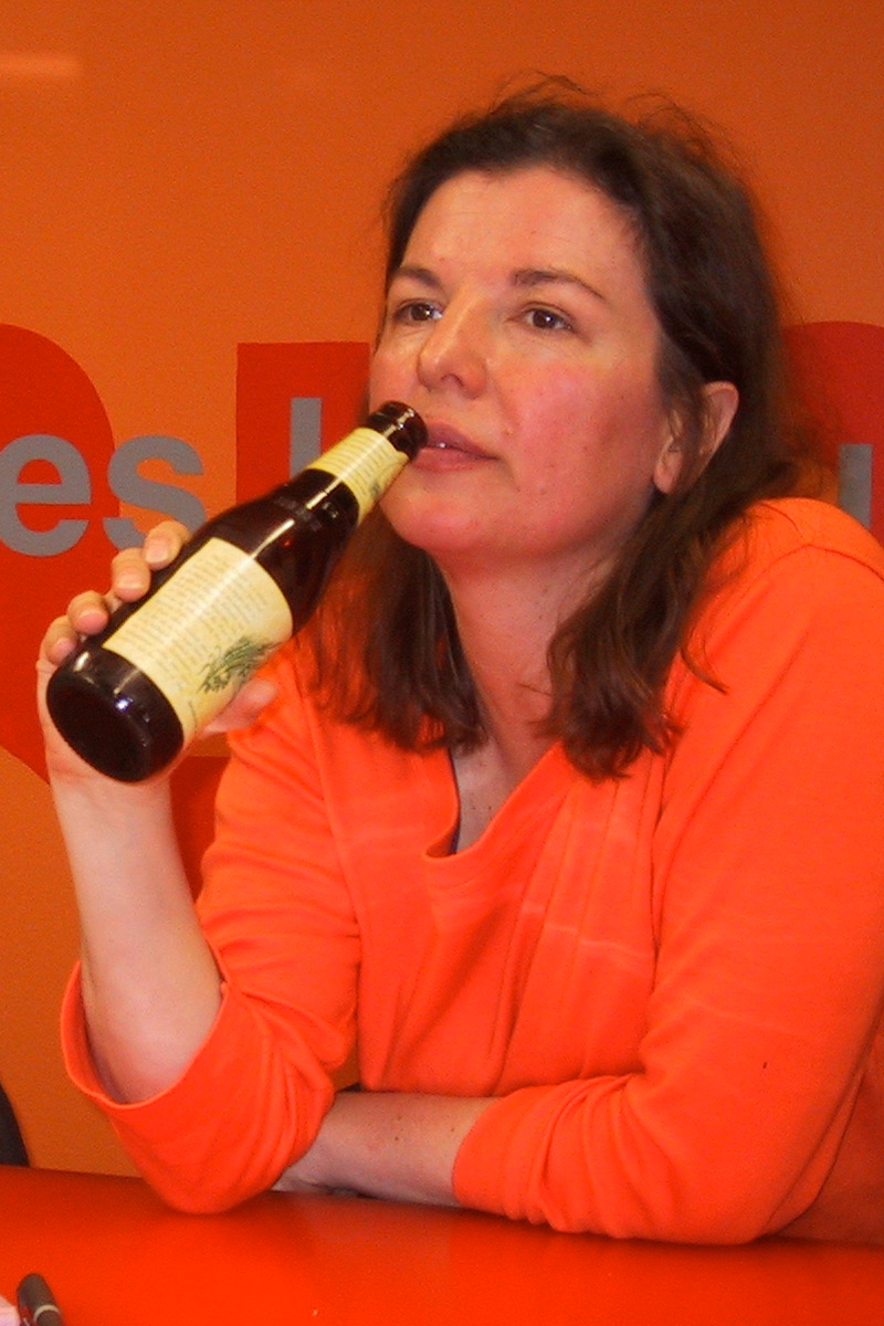 The Austrian playwright Margret Kreidl at a reading at the University of Sydney (2005).